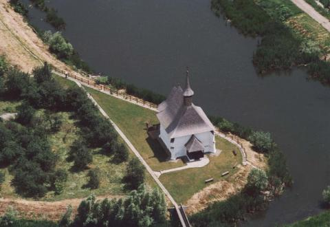 reformed church in Csengersima, hungary, aerial photography This is a photo of a monument in Hungary. Identifier: 8216